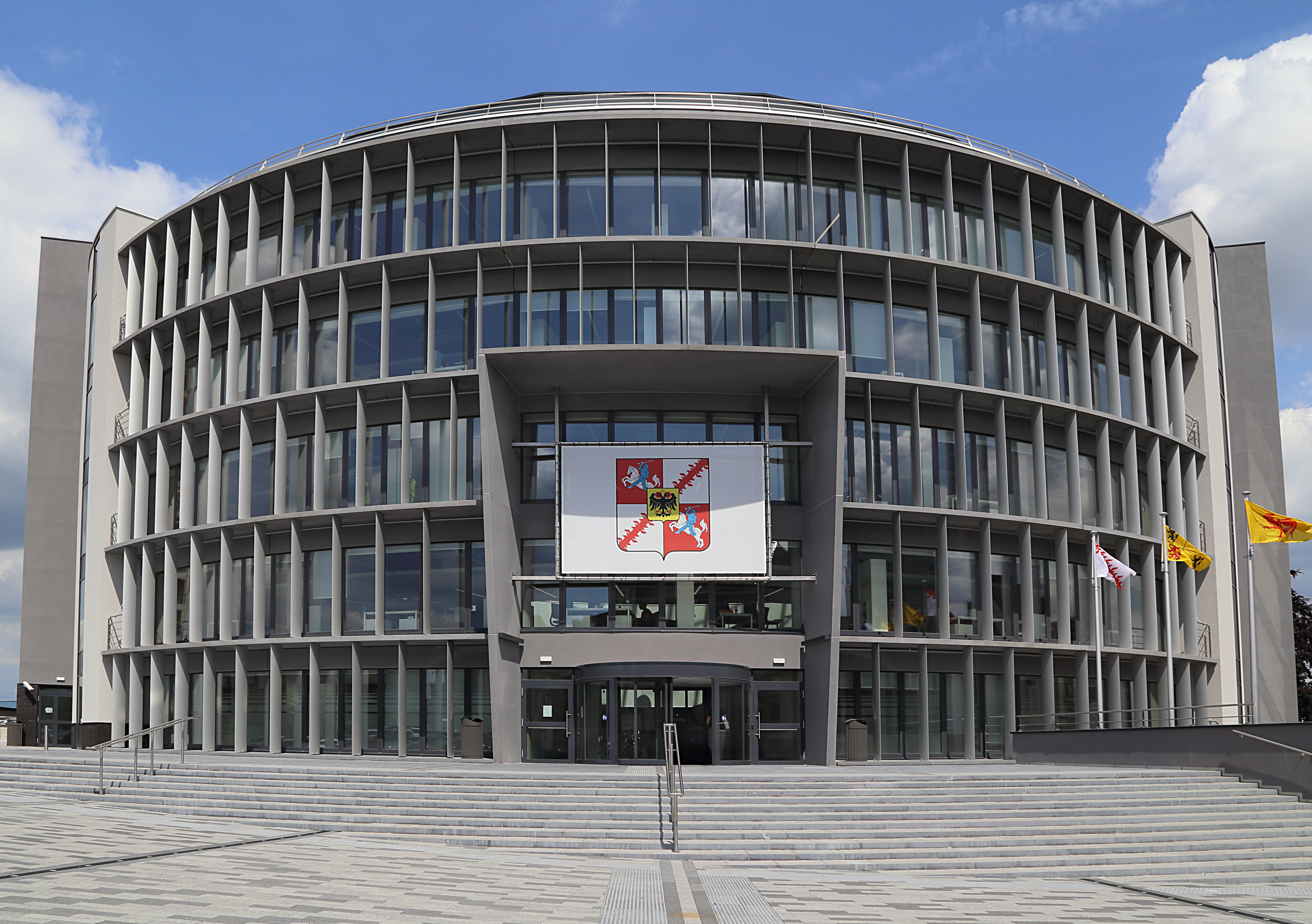 The administrative Centre of Mouscron, Belgium.